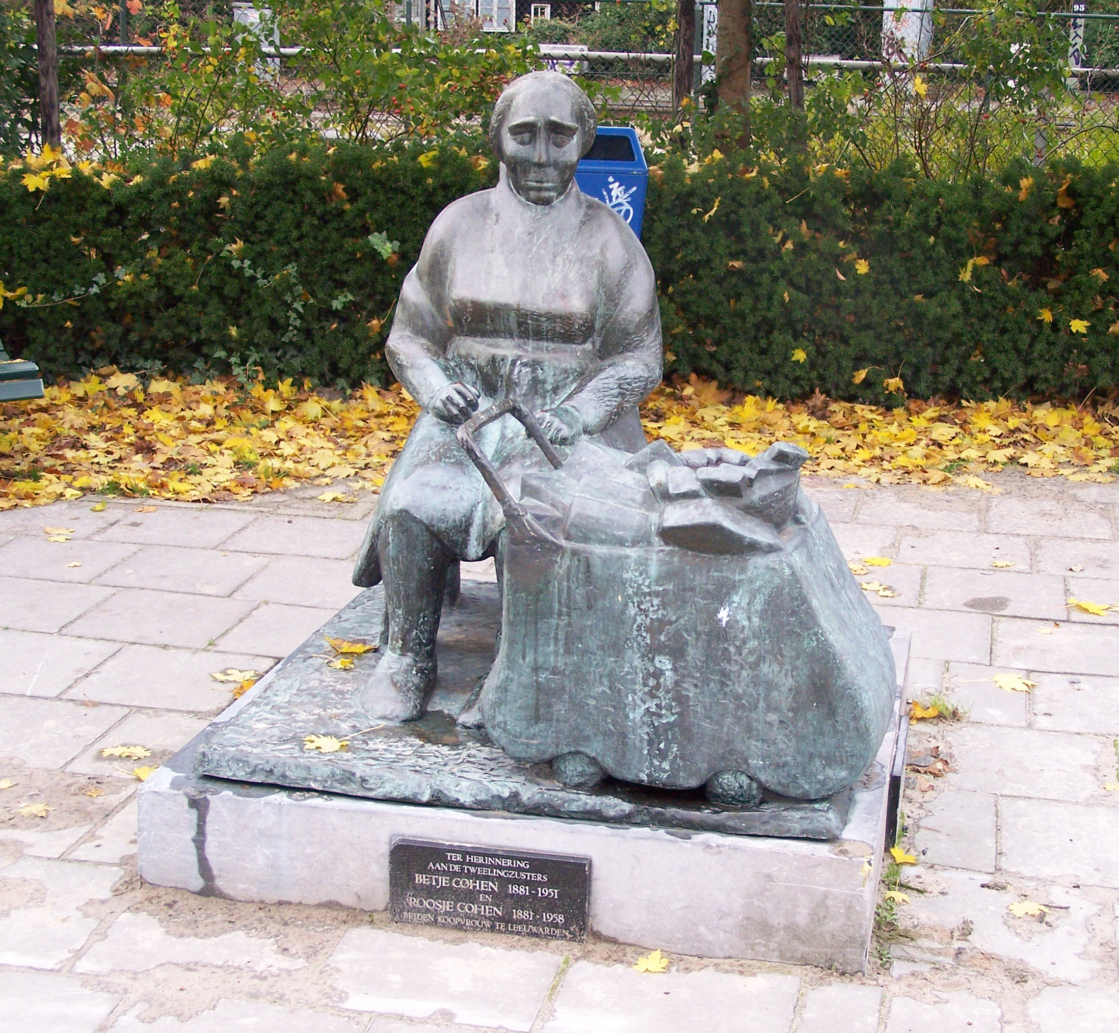 Sculpture "Monument voor Betje en Roosje Cohen" made by Karianne Krabbendam in 1988 and placed at the corner of the Hollanderdijk and Schrans in Leeuwarden.